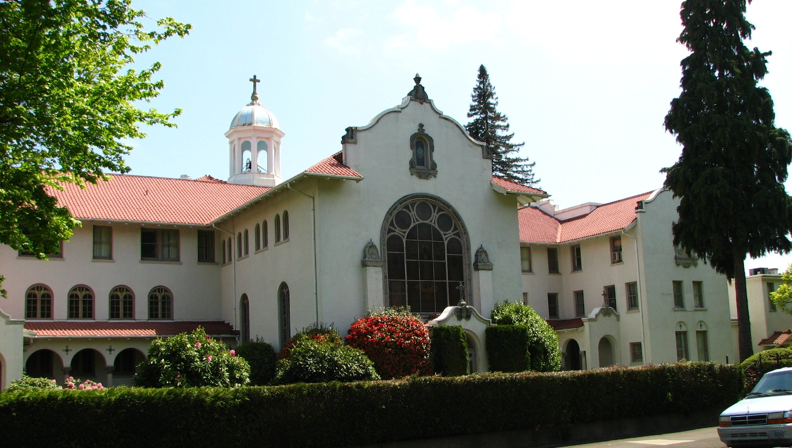 The historic Monastery of the Precious Blood at 1208 Southeast 76th Avenue in Portland, Oregon, United States, is listed on the US National Register of Historic Places. It is currently in use as a residential care facility for victims of Alzheimer's disease.